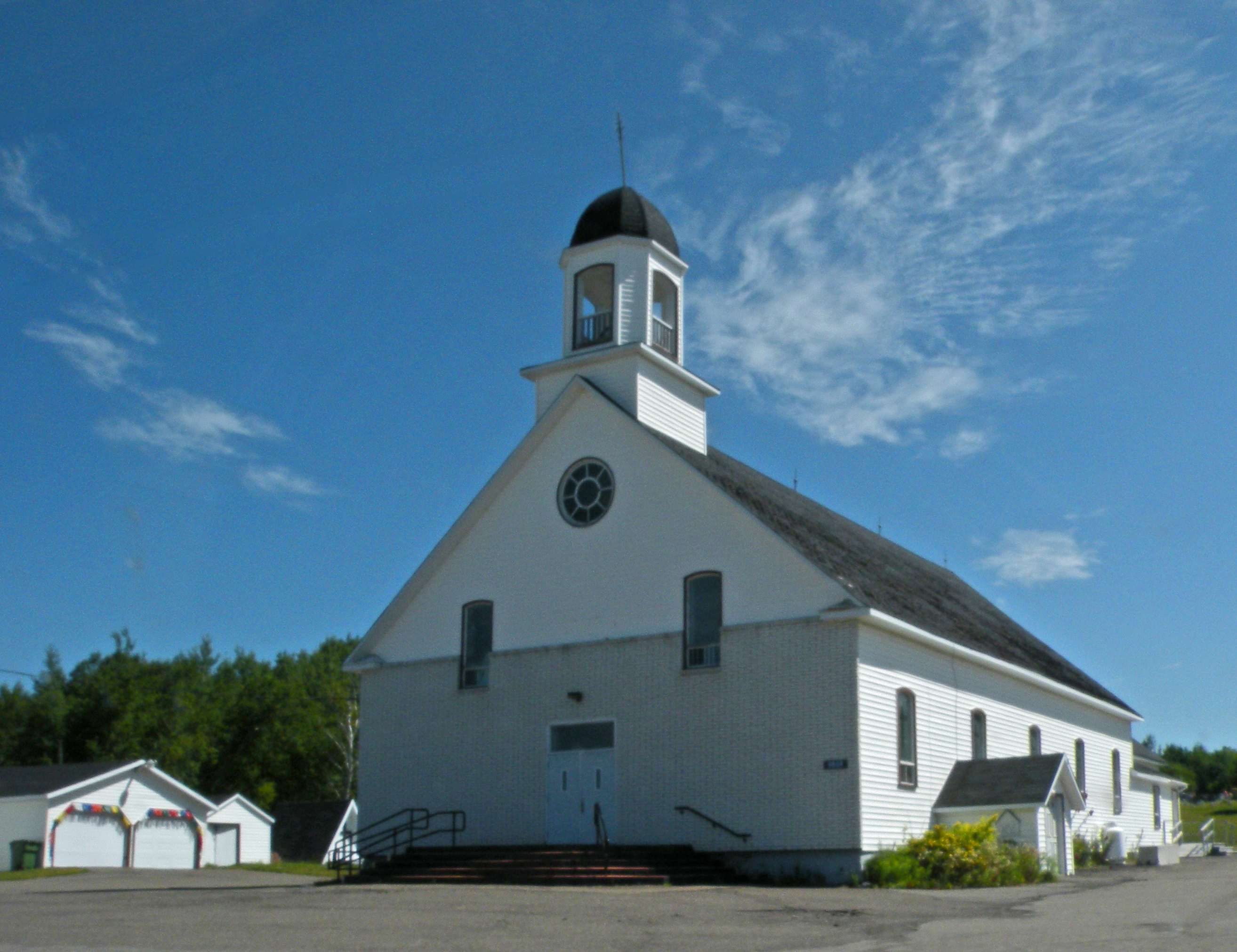 Saint-Jean-Baptiste-de-Restigouche, New Brunswick, Canada.